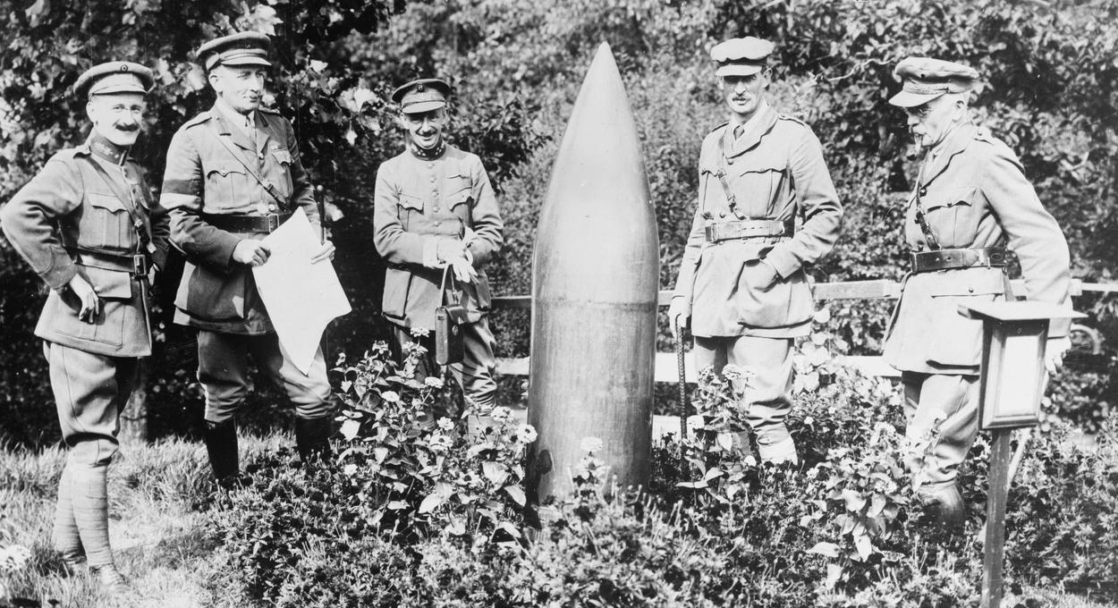 British Officers standing next to an un-exploded shell. World War I artillery ammunition.